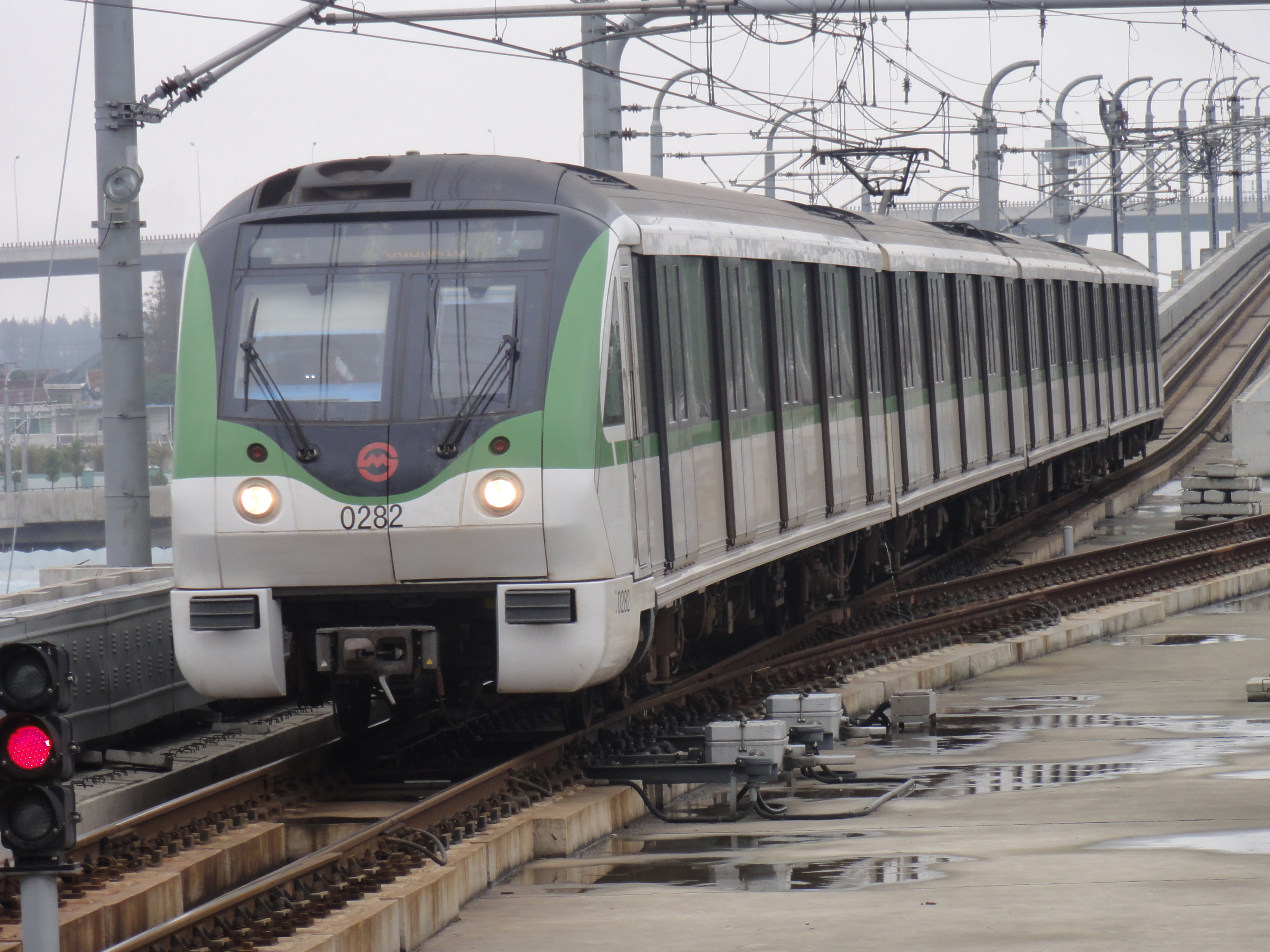 Shanghai Metro Line 2 AC17B Train